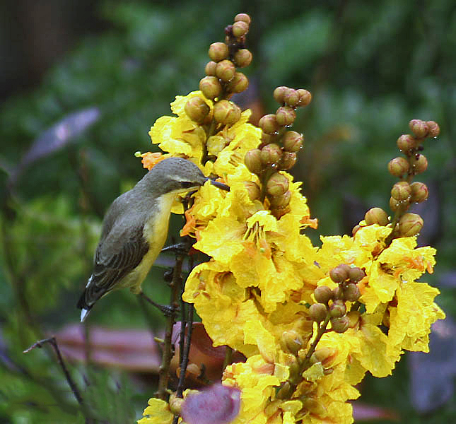 Purple Sunbird Nectarinia asiatica in Kolkata, West Bengal, India.